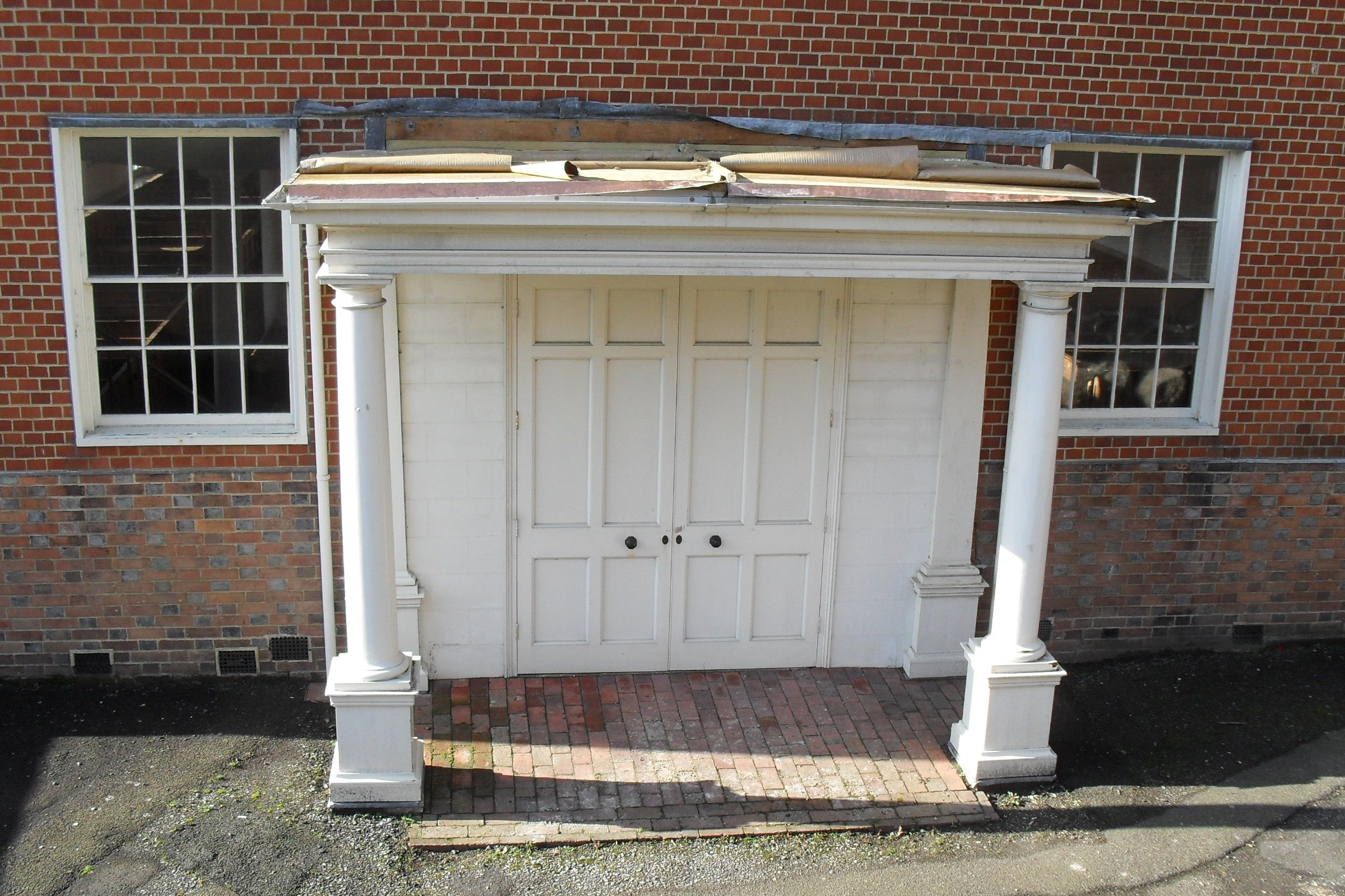 The entrance to the Jireh Chapel at Cliffe, Lewes, showing the flat hood and wide Tuscan columns.